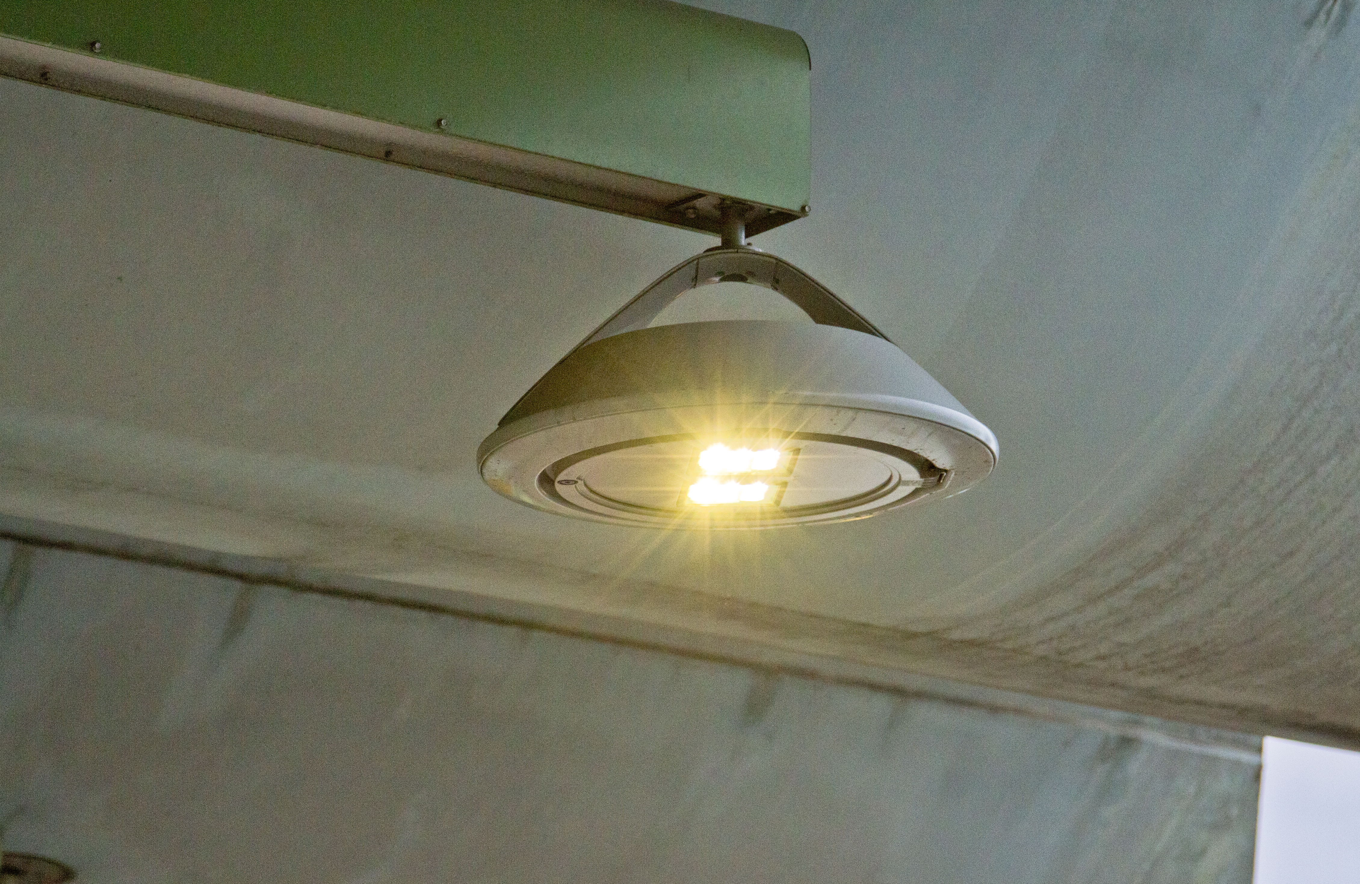 New LED-lamp in Pukinmäki railway station